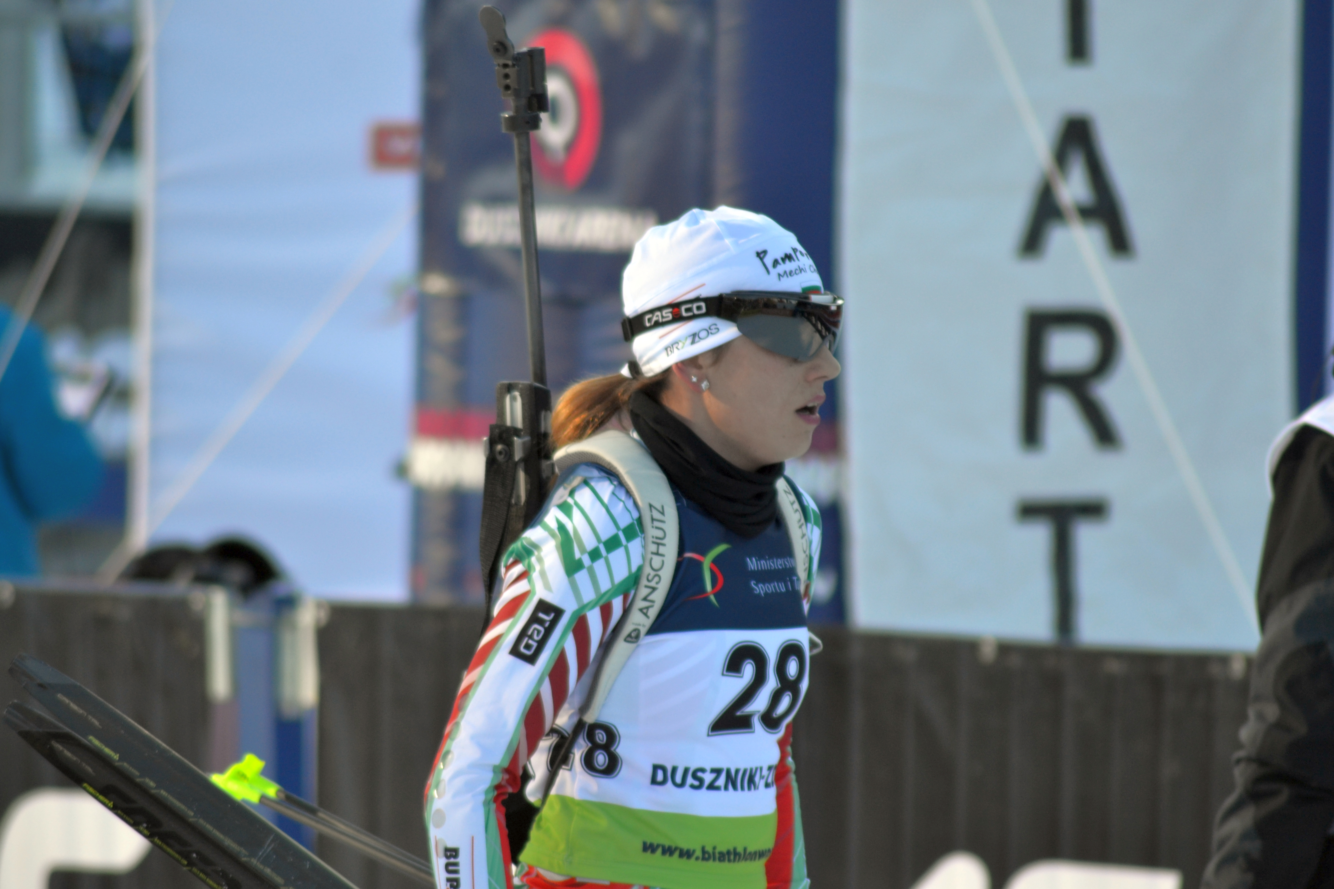 Open European Championships Biathlon 2017, Sprint Women's race, held on January 27th.